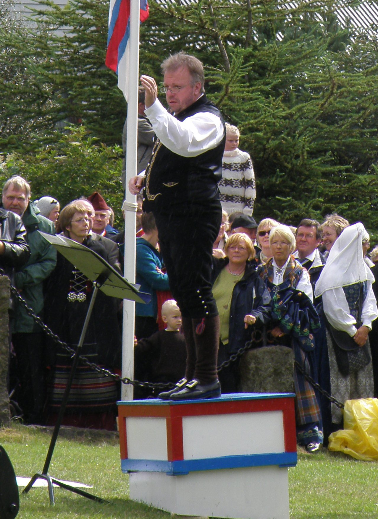 Sunleif Rasmussen is a Faroese composer. This photo is from the Olavsoka Cantata, which he composed, here he is directing the large Olavsoka Choir, which has members from all around the Faroe Islands, he is also directing the musicians, who are standing right in front of the Faroese parliament building Løgtingið. This event is on the Faroese national holiday, the Ólavsøka (Sct. Olav's Wake), which is on 29 July. The cantata is just after the procession of the parliament members, the priests and other officials. Føroyskt: Sunleif Rasmussen er føroyskt tónaskald. Á myndini dirigerar hann tað stóra Ólavsøkukórið og tónleikarar meðan tey framføra Ólavsøku kantatuna 2009, sum Sunleif fekk til uppgávu at komponera. Myndin er tikin Ólavsøkudag 29. juli 2009 á Vaglinum beint eftir skrúðgonguna.